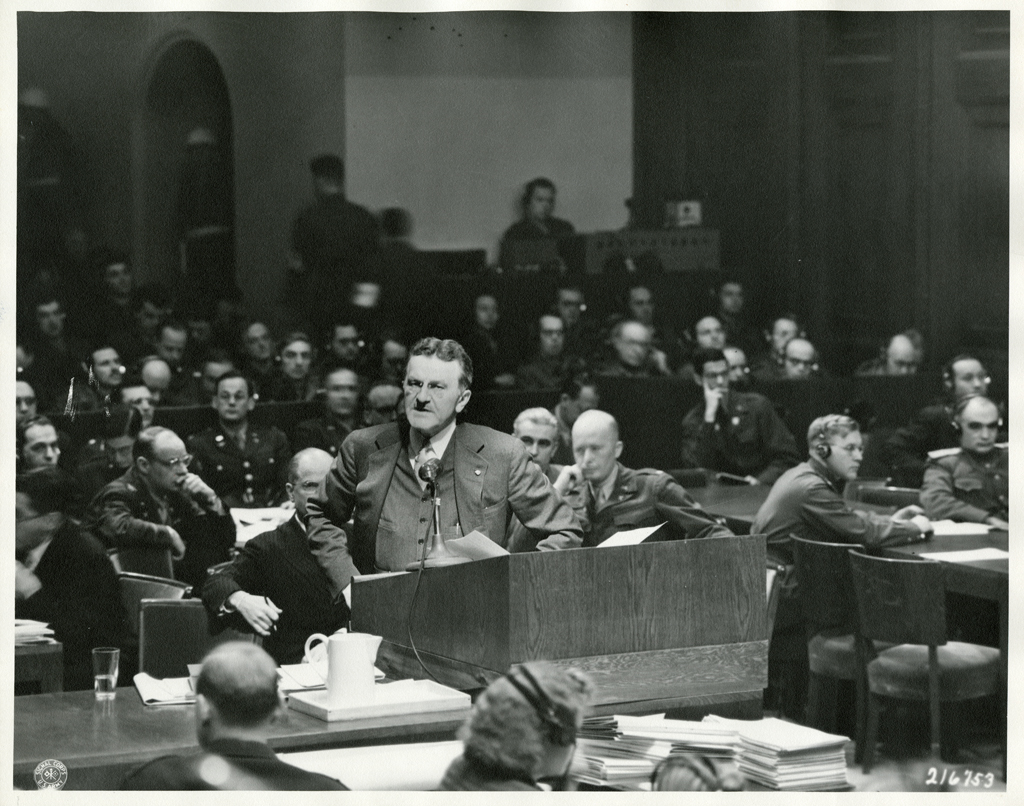 Prosecutor Ralph Gerhart Albrecht photographed addressing the court, Nuremberg Trials, Nuremberg Germany. Gelatin silver process on paper. 27.8 cm x 25.5 cm. Image courtesy of the Harvard Law School Library, Harvard University, Cambridge, Mass.